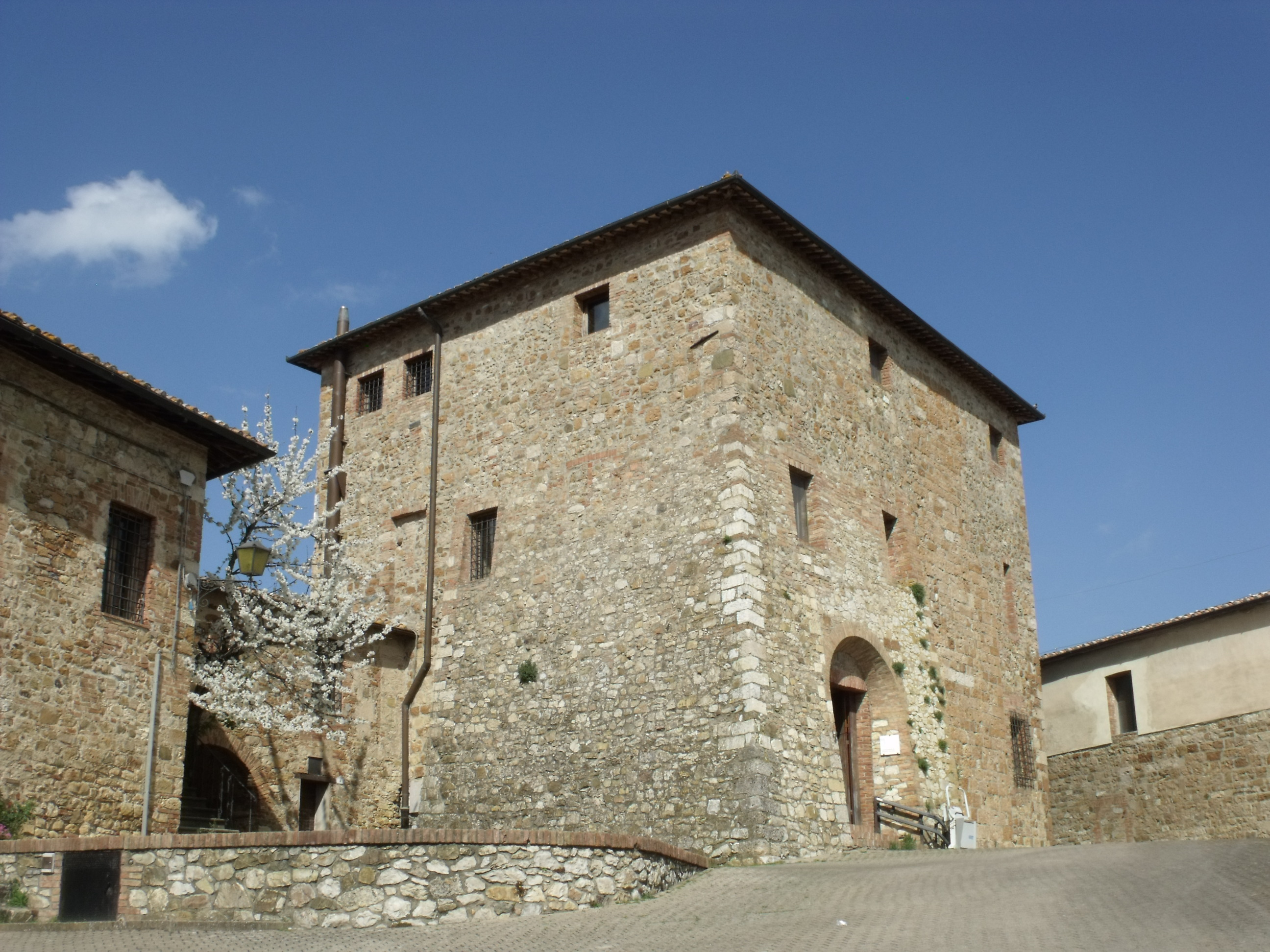 Palazzo Vescovile, now Antiquarium di Poggio Civitate Museo Archeologico, Murlo (Castello/Borgo), Province of Siena, Tuscany, Italy